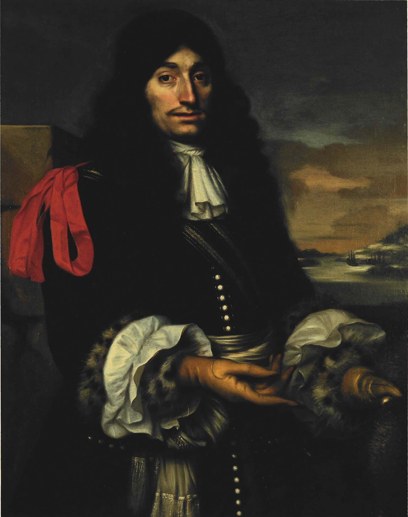 Painting of Henri de Tonti, detail